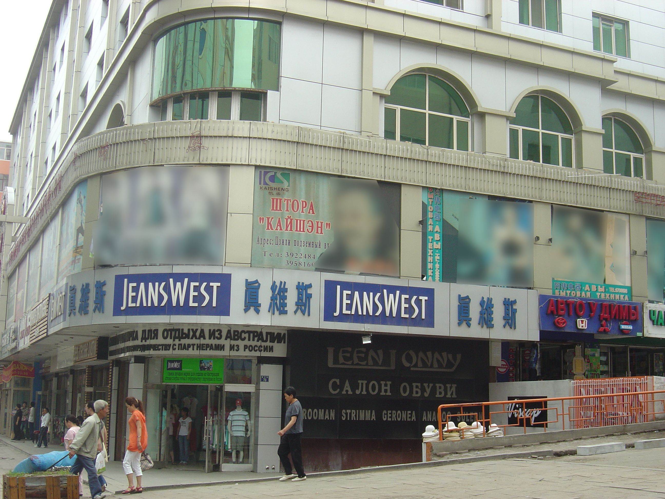 Trade Centre (Suifenhe)